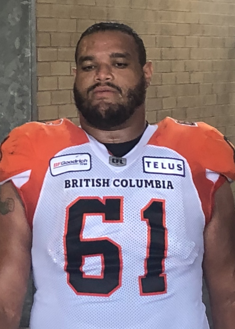 Joel Figueroa, offensive lineman for the BC Lions.